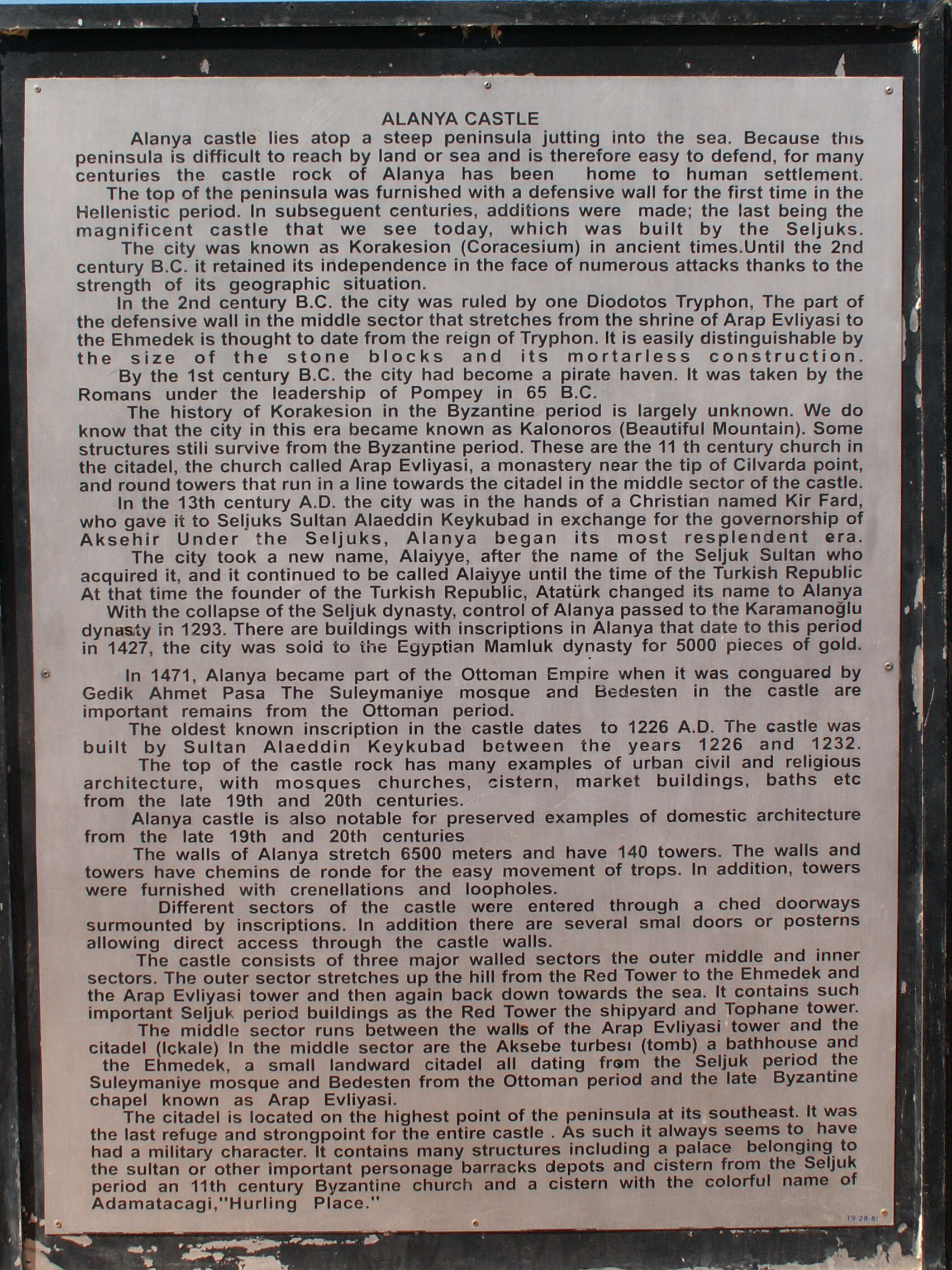 Information board in the Alanya Castle